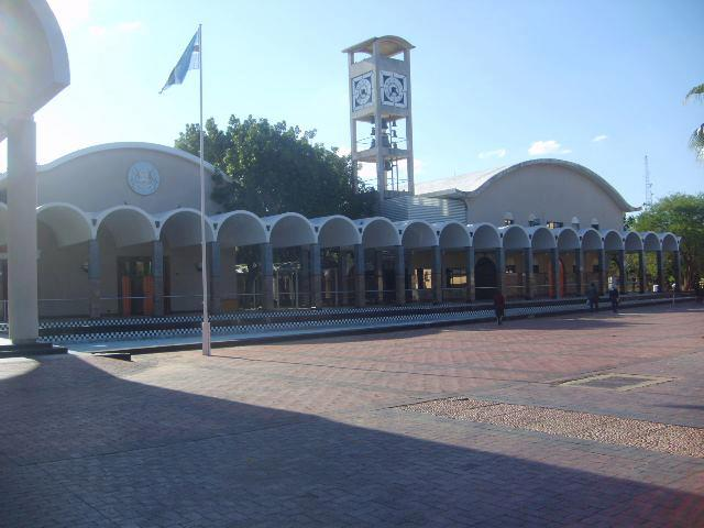 Parliamentary Side